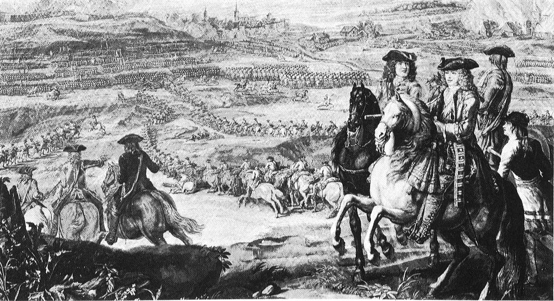 The Storming of the Schellenberg at Donauwörth (1704), Marlborough on the right. Tapestry (detail)